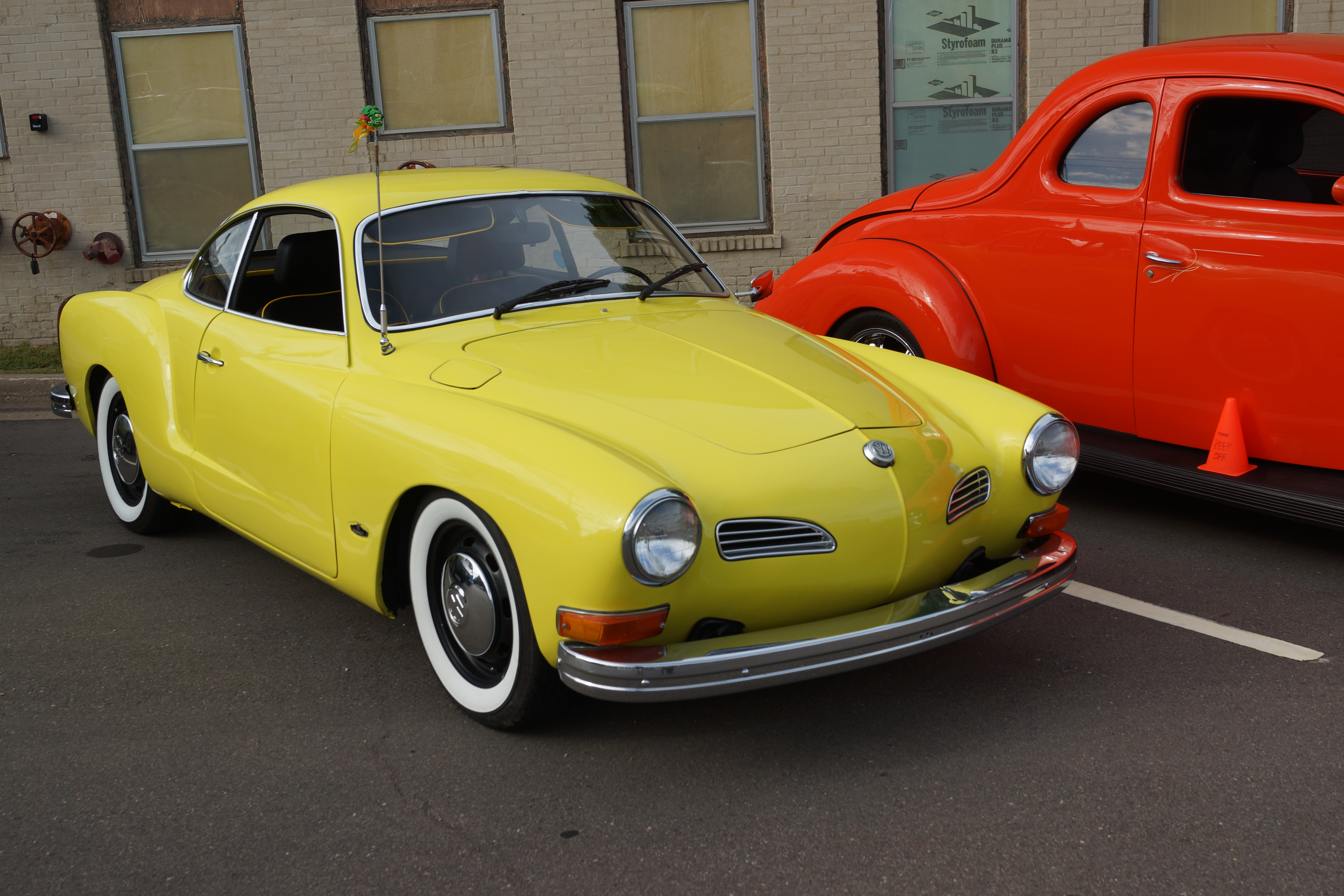 HISTORIC DOWNTOWN HASTINGS CRUISE-IN & CLASSIC CAR SHOW Hastings, Minnesota September 2016 Click here for more car pictures at my Flickr site.